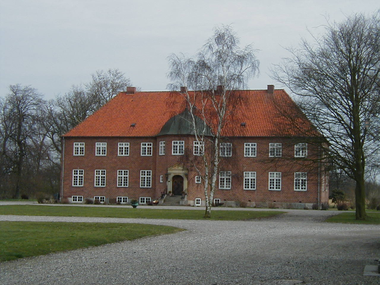 The Manor house of Fredsholm on Lolland in Denmark. Founded in 1630, the manor was heavily damaged in a fire in 1917 and a new main building was finished in 1918.